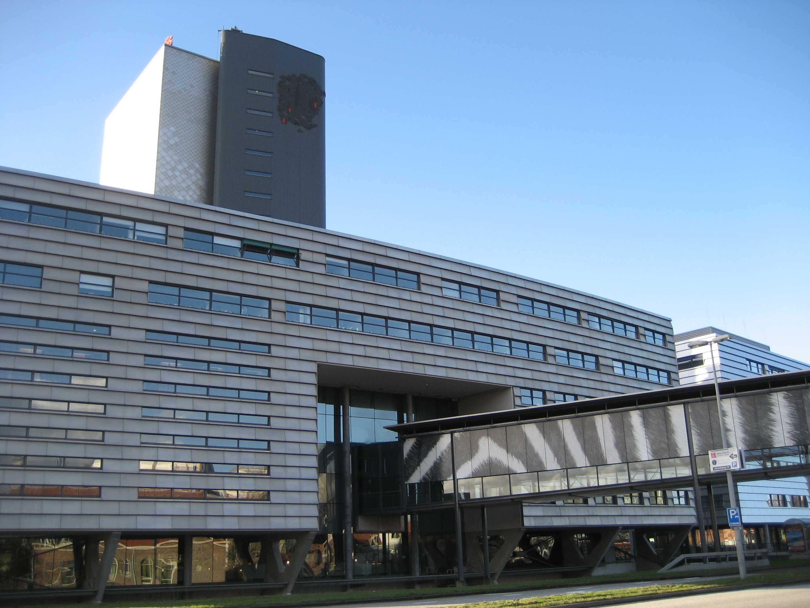 Naturalis Museum Leiden (incl. bridge with zebra motive)